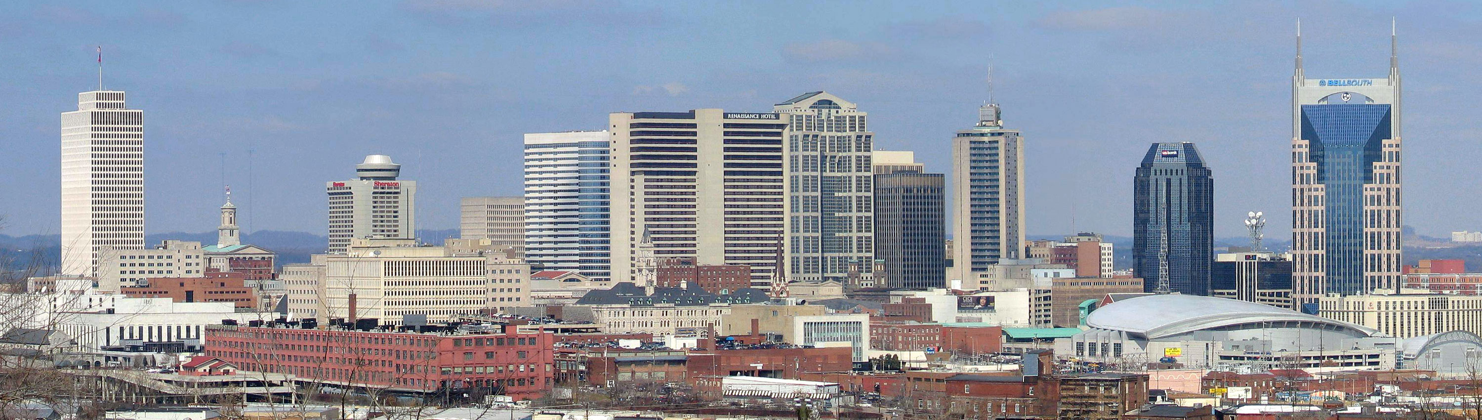 Panorama of Nashville, Tennessee.